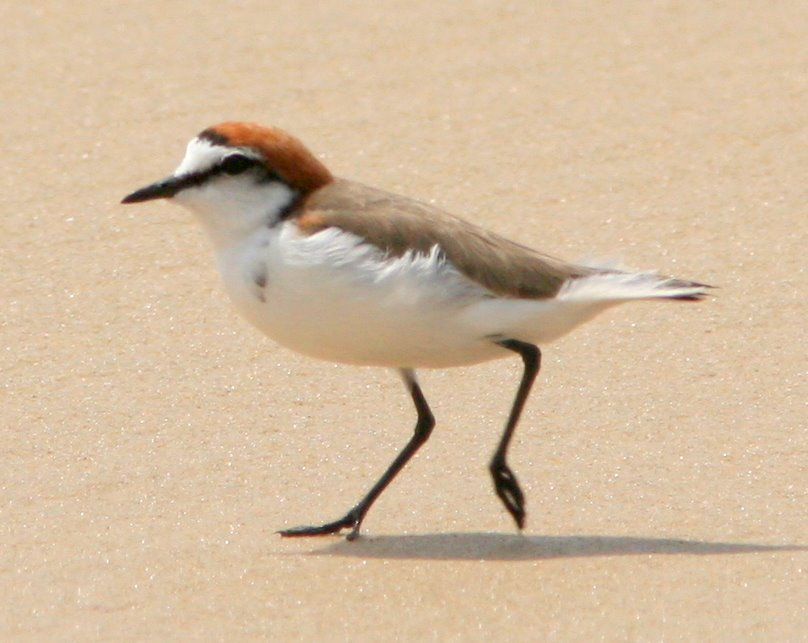 Red-capped Plover, Charadrius ruficapillus, female, wild bird.